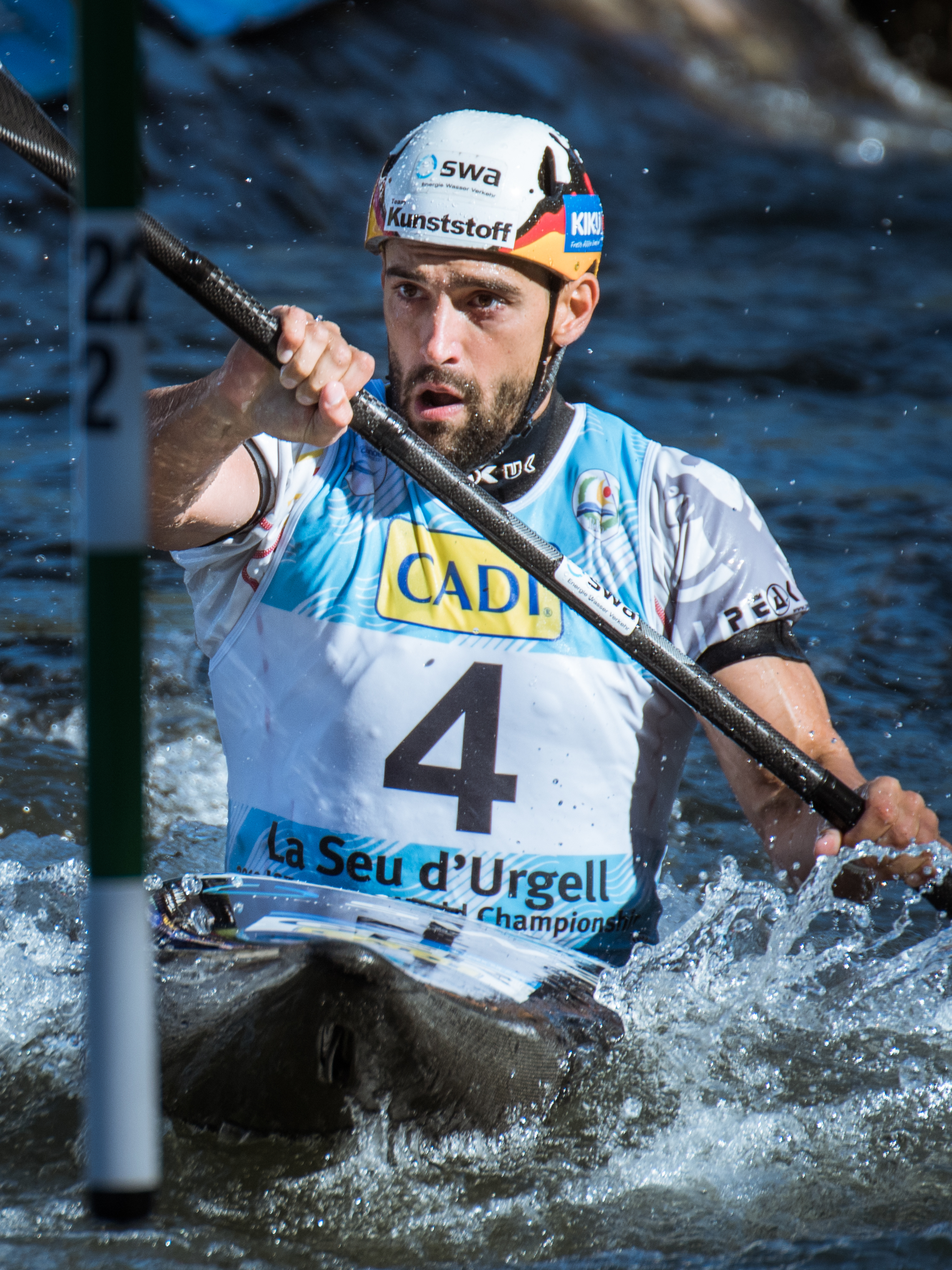 Hannes Aigner during the 2019 Canoe Slalom World Championships in La Seu d'Urgell, Spain.